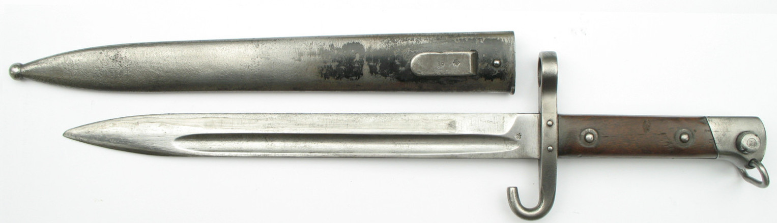 Mannlicher M1895 Bayonet NCO (for non-commissioned officer)